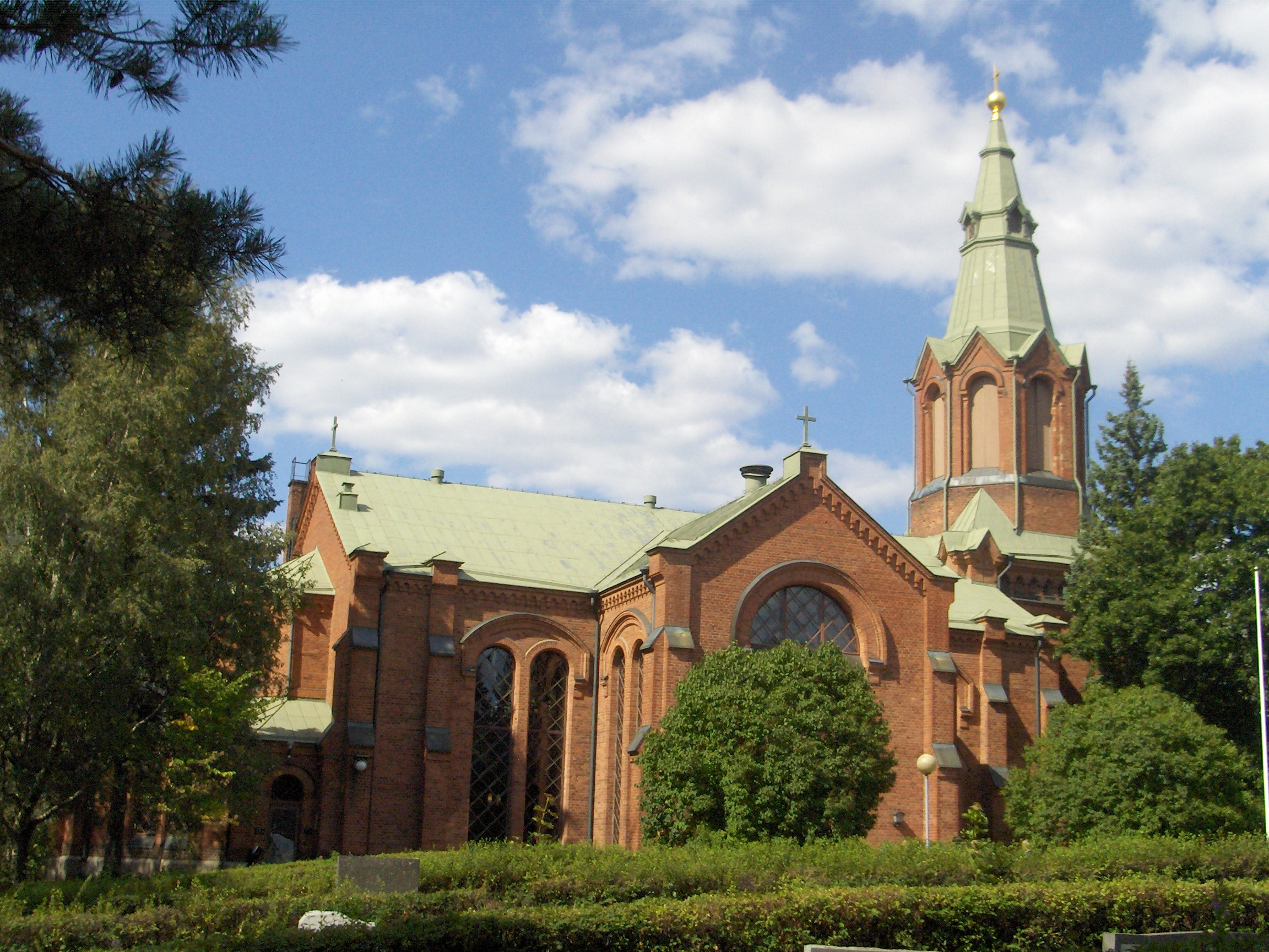 Messukylä Church in Tampere, Finland